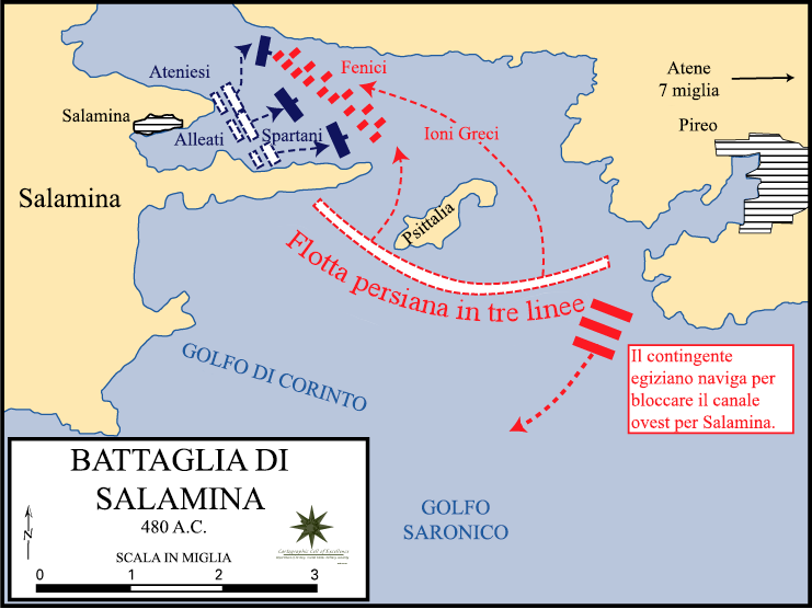 Battle of Thermopylae and movements to Salamis, 480 BC